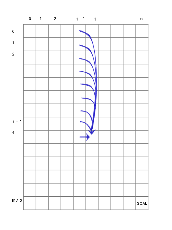 A generic dynamic programming table for the Partition Problem in which a purple arrow from block A to block B means that the resultant value of block B depends (or might depend) on the value of block A. This is a result of the recurrence relation of the Partition Problem.